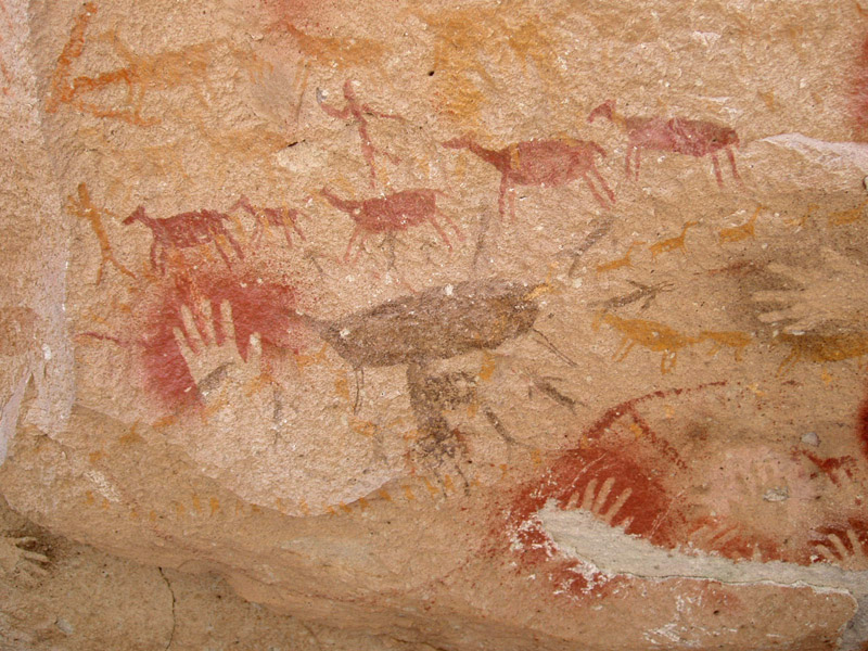 Drawings at the Cuevas de las Manos in Santa Cruz Province, Argentina. Picture taken by me in 2005.